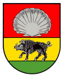 Coat of arms of Dörrmoschel